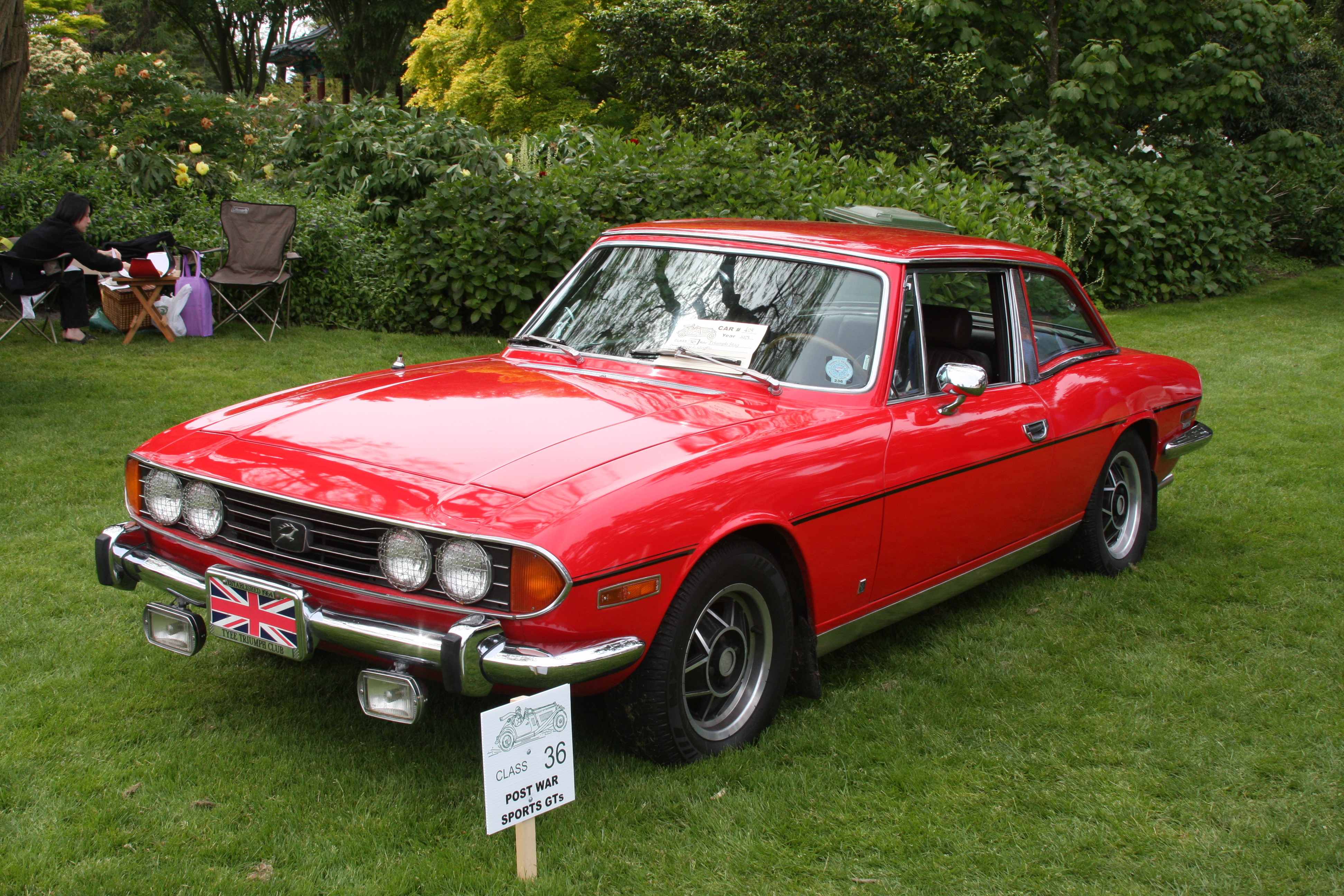 1973 Triumph Stag with hardtop